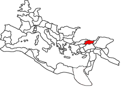 Roman Empire with Pontus highlighted